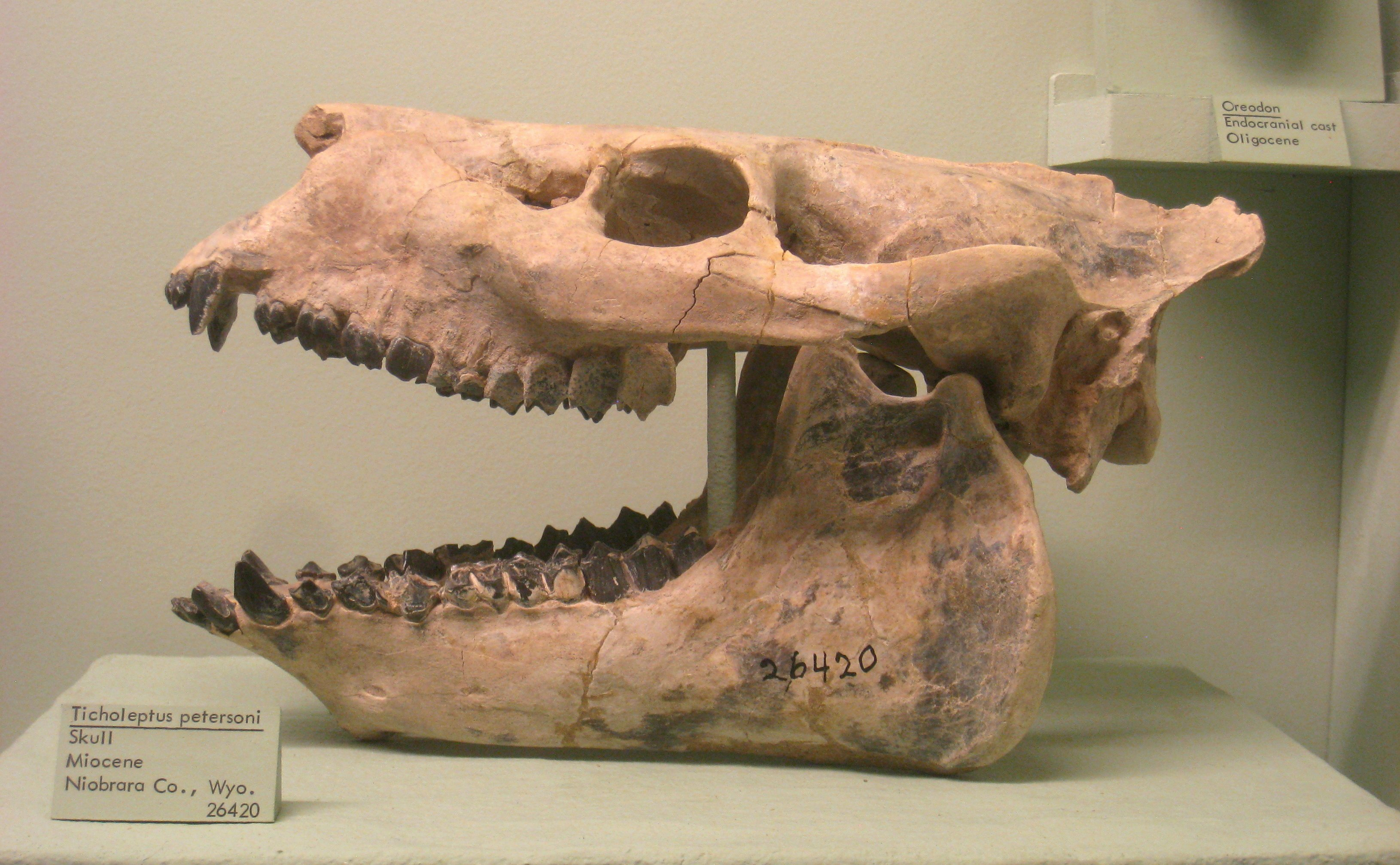 crop of file in file name